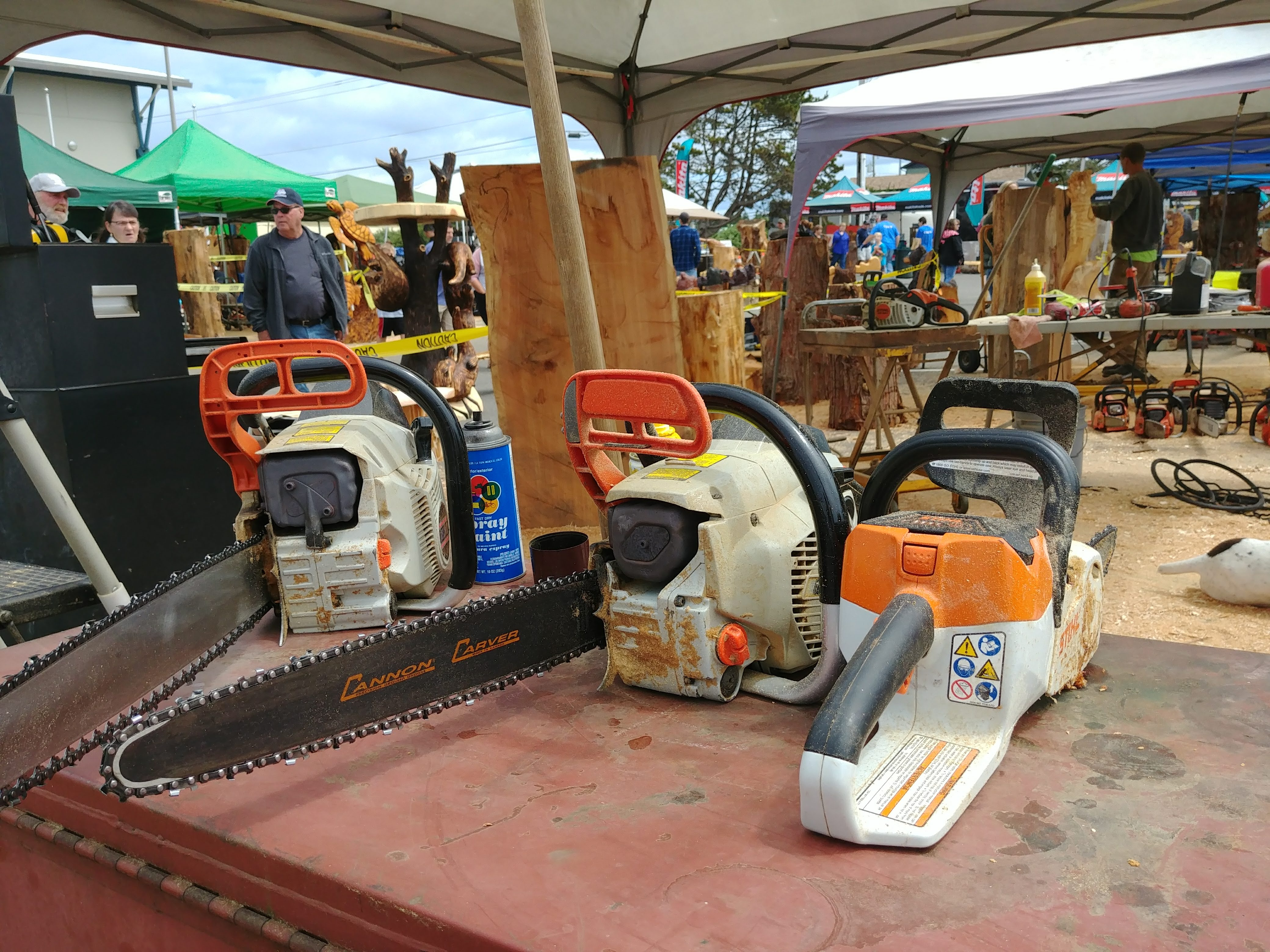 Chainsaws on a table at a chainsaw carving competition at the Ocean Shores, Washington convention center